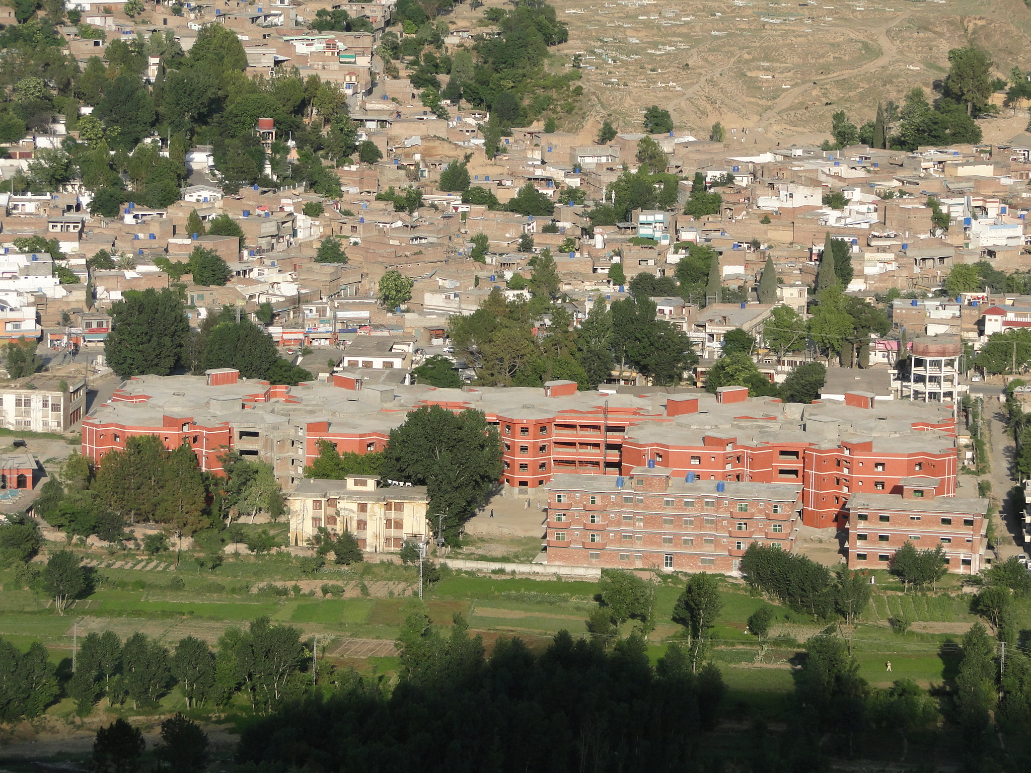 New block of Saidu Sharif Hospital